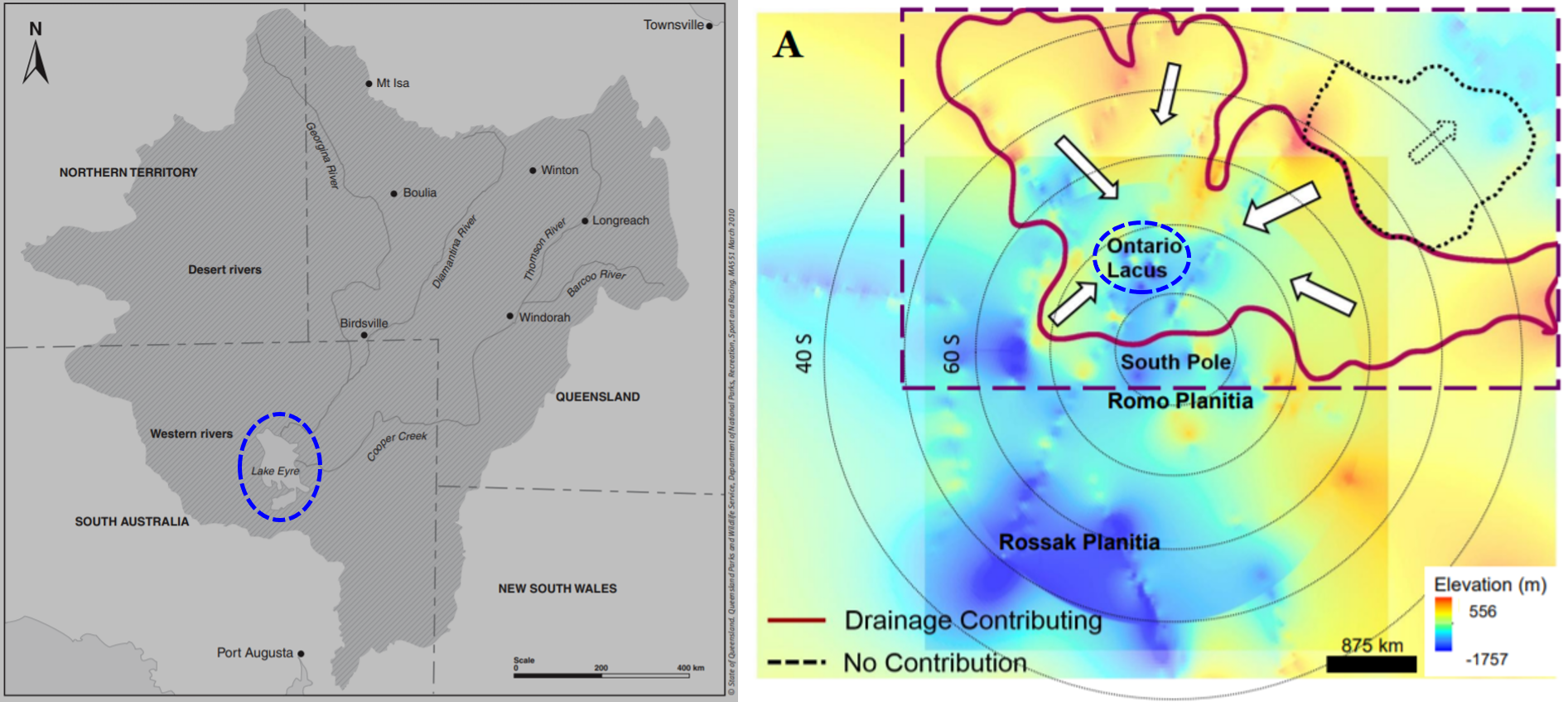 The catchment areas of Lake Eyre (dark grey region in left image) and Ontario Lacus (red outline) are many times larger than their lake areas (blue, dashed ovals).